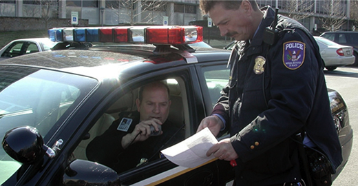 United States National Institutes of Health Police at work on the National Institutes of Health main campus in Bethesda, Maryland.